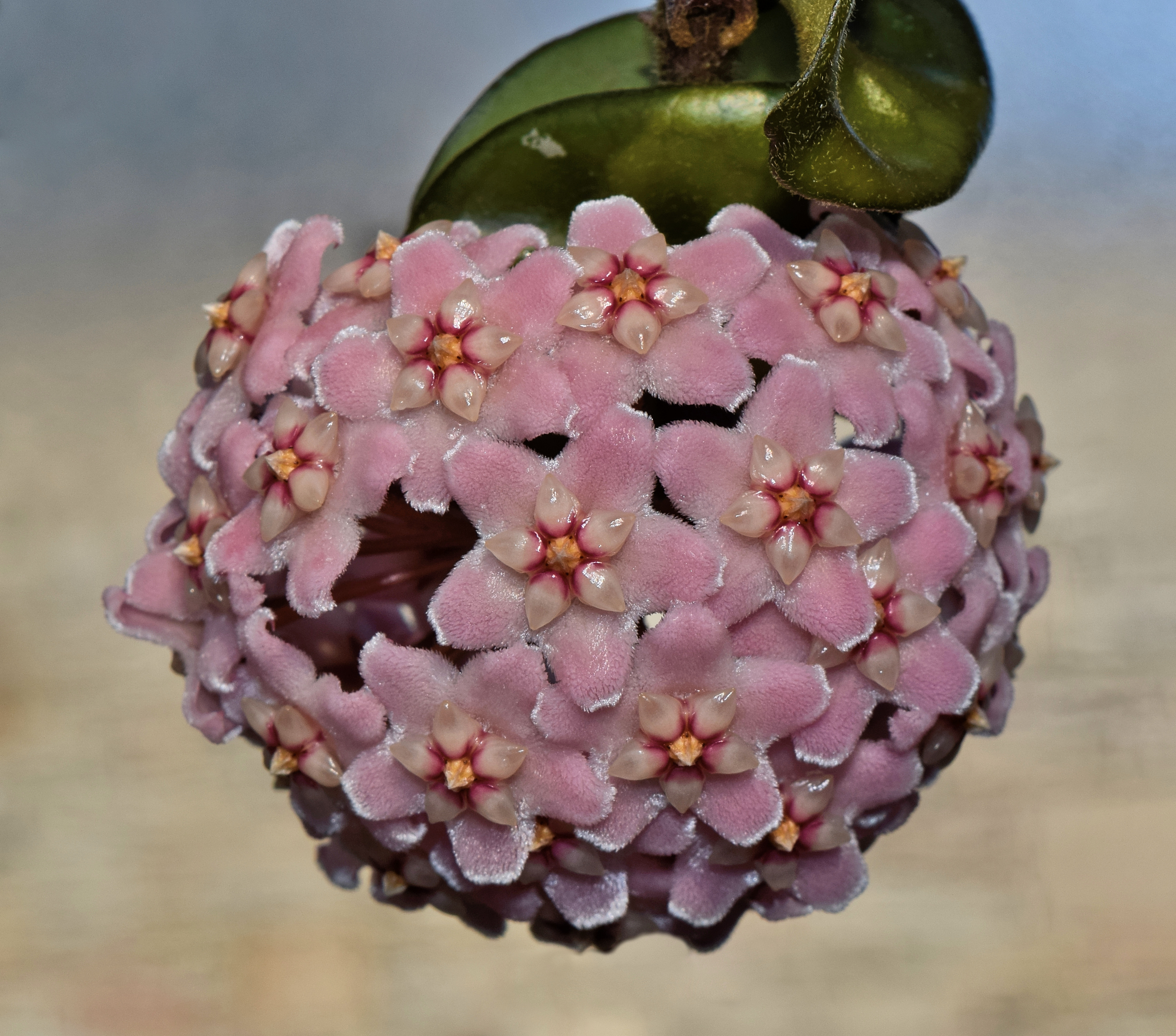 The porcelainflower (Hoya carnosa) blooming in the Floral Showhouse, Niagara Falls, Ontario, Canada.